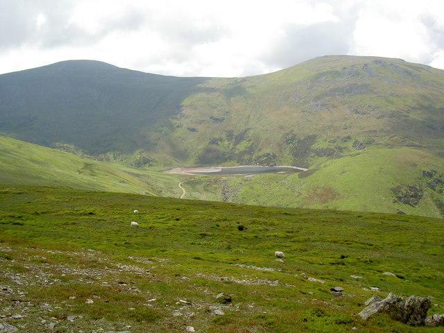 Llyn Anafon. The water level looks a bit low.